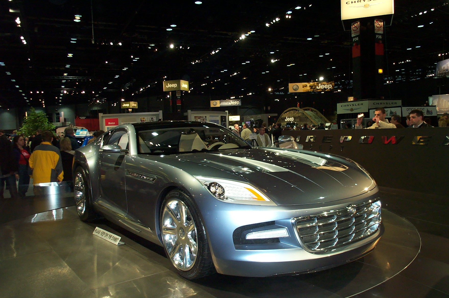 Front view of the Chrysler Firepower.